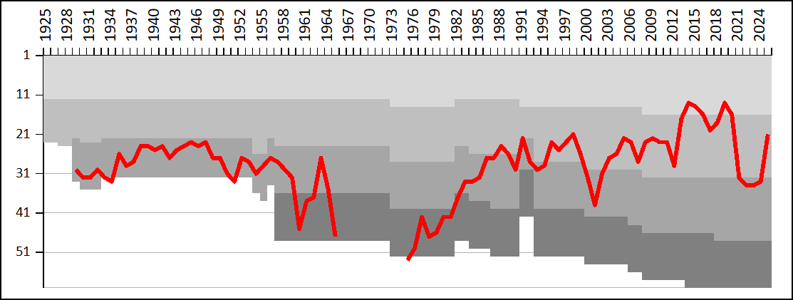 A chart showing the progress of Falkenbergs FF through the Swedish football league system. Horizontal black lines represent league divisions.